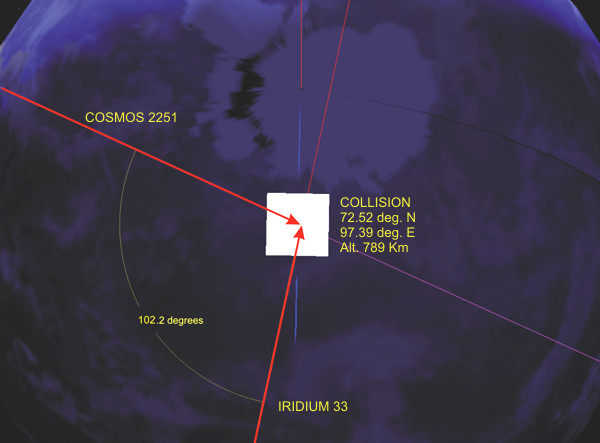 Collision of satellites, February 2009